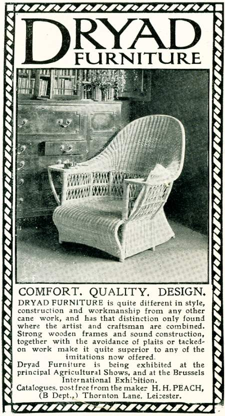 Advertisement for Dryad Furniture. The company was an early British manufacturer of cane furniture.